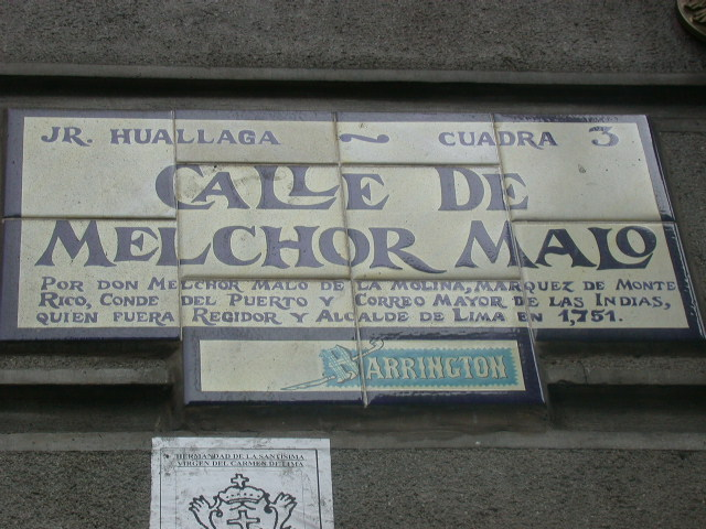 Street sign in the Historic Center of Lima